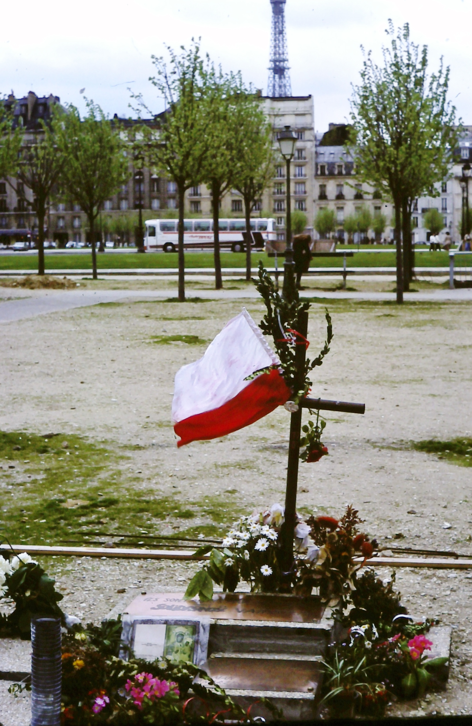 Memorial to the "martyrs" of the Polish Solidarity trade union outside Les Invalides in Paris, Easter 1982